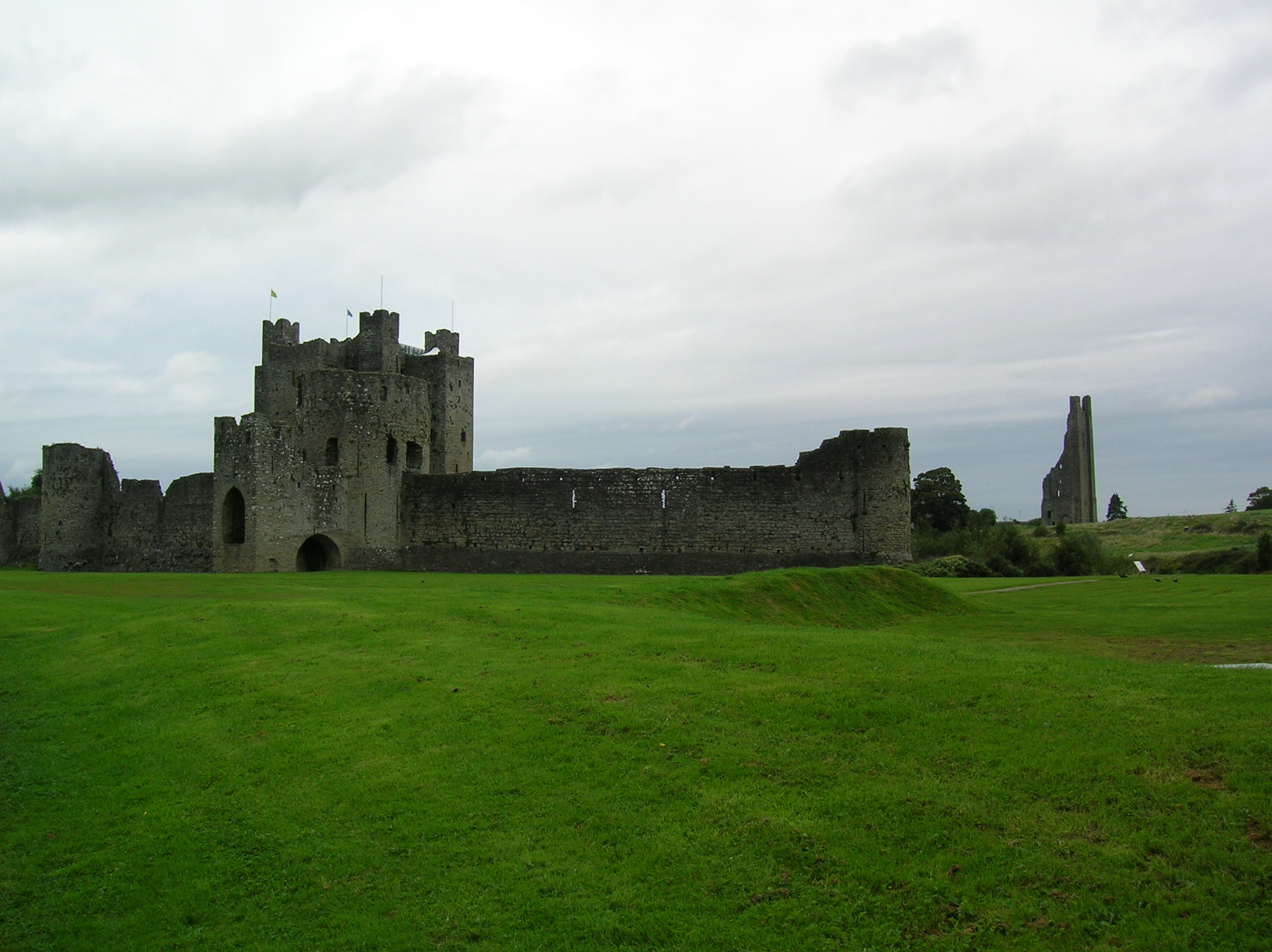 Trim Castle with Yellow Tower, Trim, Ireland.